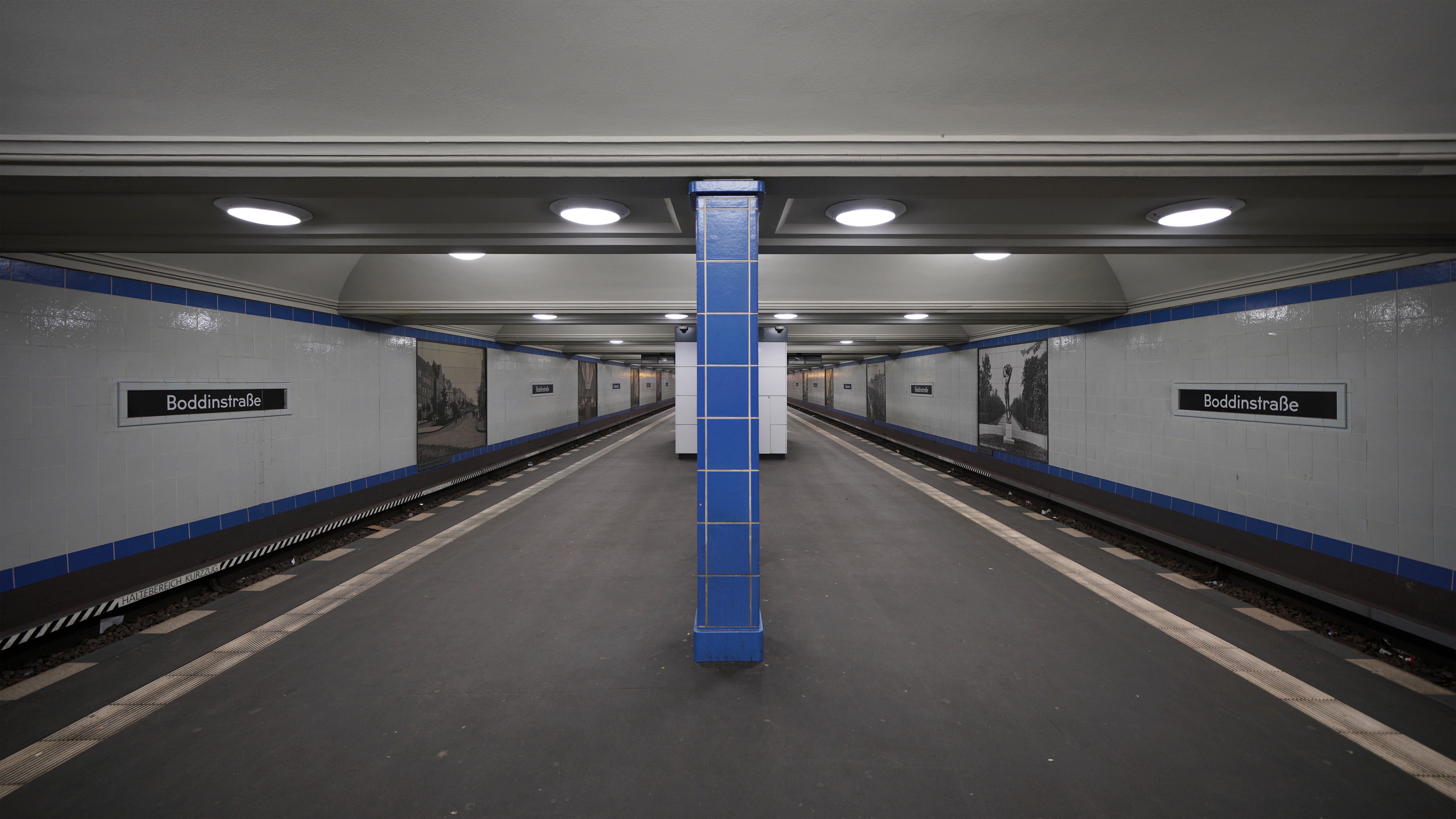 Platform of Boddinstraße U-Bahn station, Berlin (Germany)